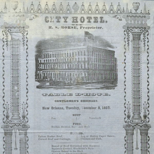 1857 menu for City Hotel, New Orleans. Includes engraved illustration of hotel building, formerly on the corner of Camp & Common Streets. Menus from hotels, restaurants, and steamboats in the 1850s and 60s. The name R. S. MORSE, Proprietor, is prominently displayed at the top of this menu.